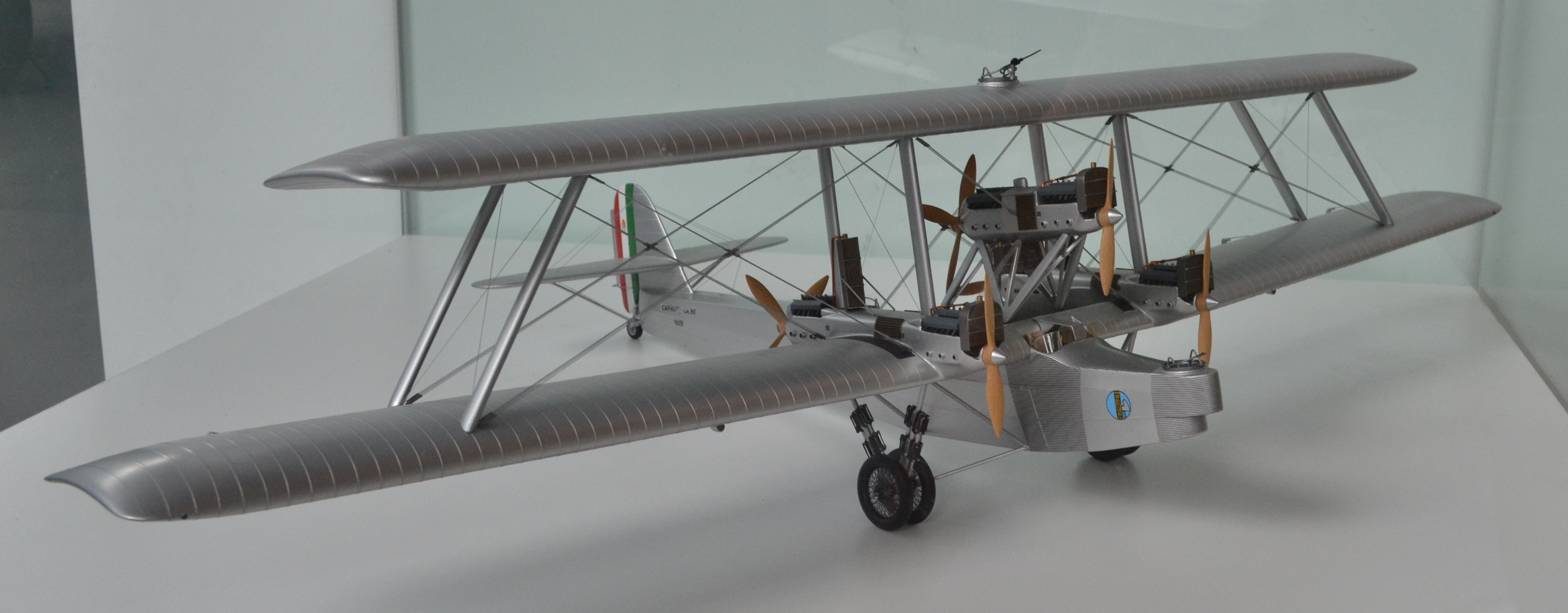 A scale model of the Caproni Ca.90 Italian bomber prototype on display at the Volandia aviation museum.